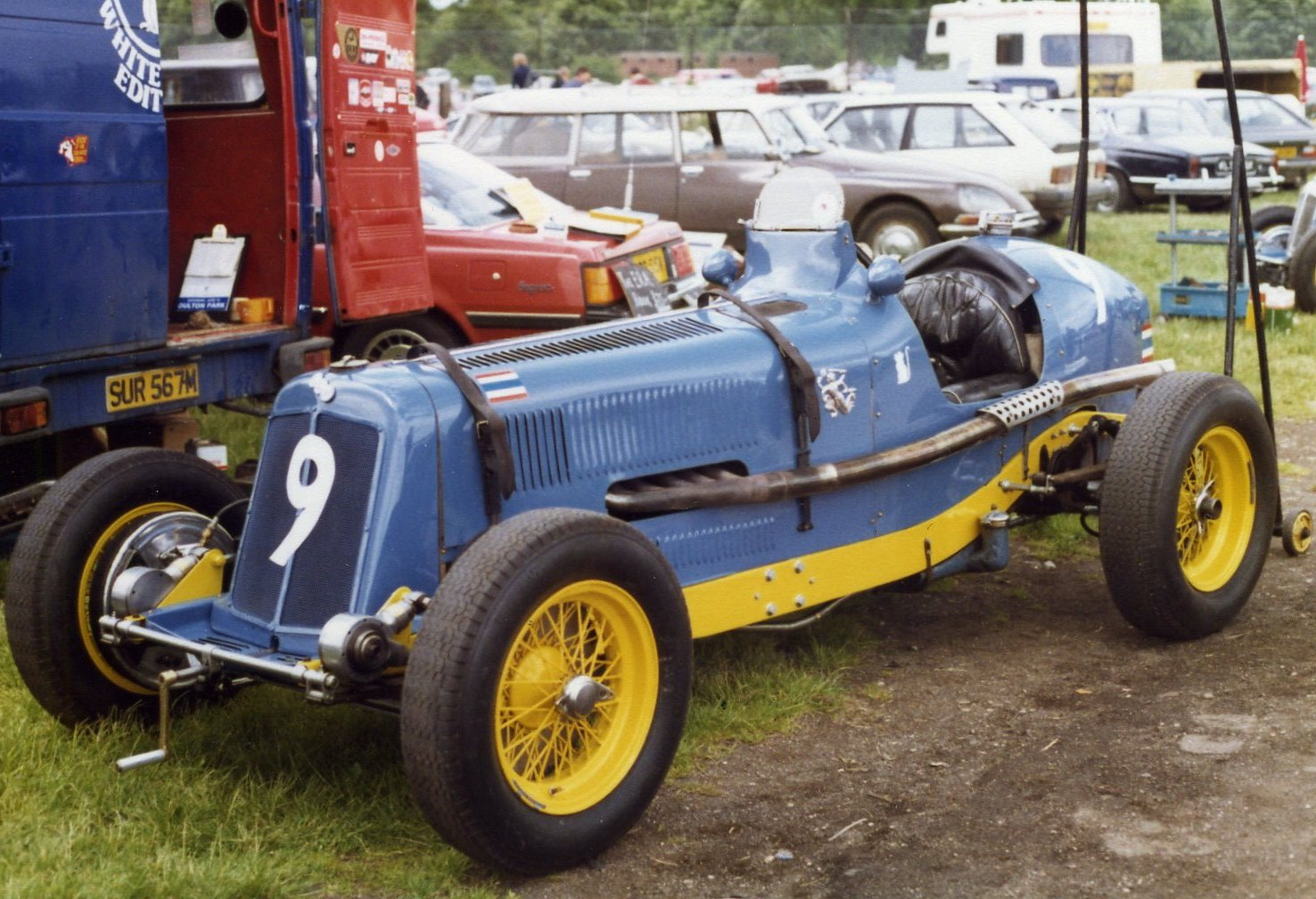 Prince Bira of Siam's English Racing Automobiles R12B racing car, "Hanuman II", pictured in the national racing colours of Siam (later Thailand) of pale blue with yellow chassis and wheels. This photo appears to have been taken at a historic race meeting some time in the 1980s. In the late 1930s Prince Bira and his cousin Prince Chula of Siam owned three ERA cars. Hanuman was their third, and the first to wear the blue-and-yellow of Siam in place of Prince Bira's earlier single colour "Bira Blue" scheme. All were run by their Whitemouse Garage racing team, whose emblem can be seen on Hanuman II, just ahead of the cockpit opening and adjacent to this car's distinctive raised 'Hanuman' emblem in silver. R12B was rebuilt as a C-Type car in 1937, and renumbered R12C, prior to being sold to Chula and Bira who named it "Hanuman". However, following a major accident in 1939 the car was rebuilt again and reverted to a B-Type chassis. It was thus renumbered back to R12B, and in light of this major rebuild Bira renamed the car "Hanuman II". As of 2007 this car is the property of the King of Thailand. This car is not to be confused with R12C Hanuman, which was built in the 1980s using the damaged C-Type chassis and discarded parts from the post-accident rebuild that formed Hanuman II.